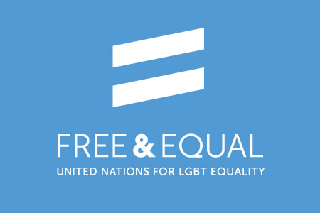 UN Free and Equal